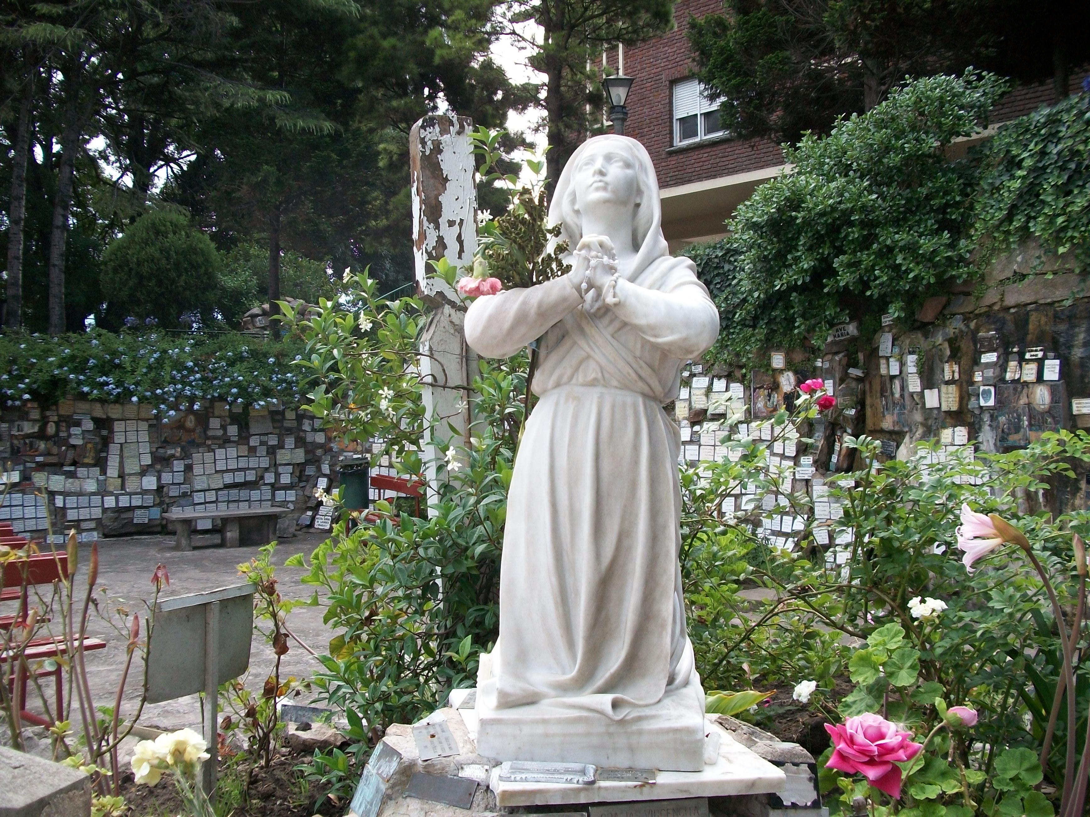 Statue of Bernadette Soubirous, situated on Lourdes grotto, Mar del Plata, Argentina